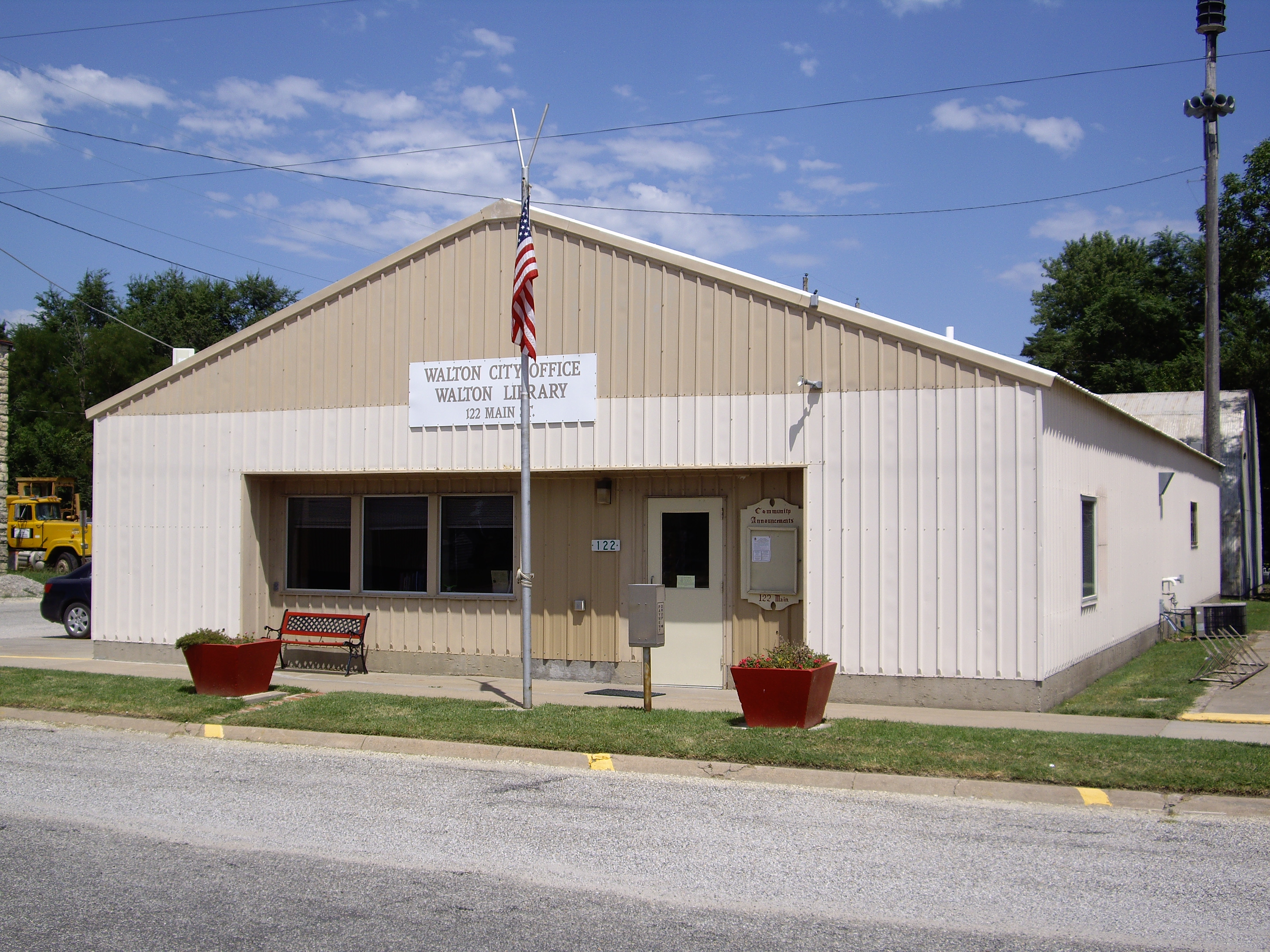 Walton City Hall, 122 Main St, Walton, Kansas, 67151, USA. Looking north-northwest. Photo by Steve Meirowsky on August 4, 2010.